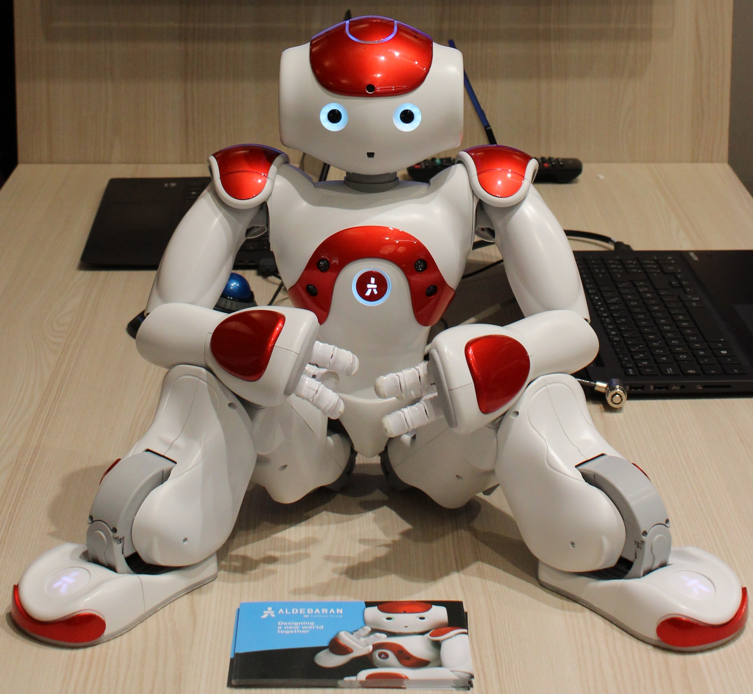 NAO robot (Aldebaran Robotics) in Innorobo show in Lyon, 2015.